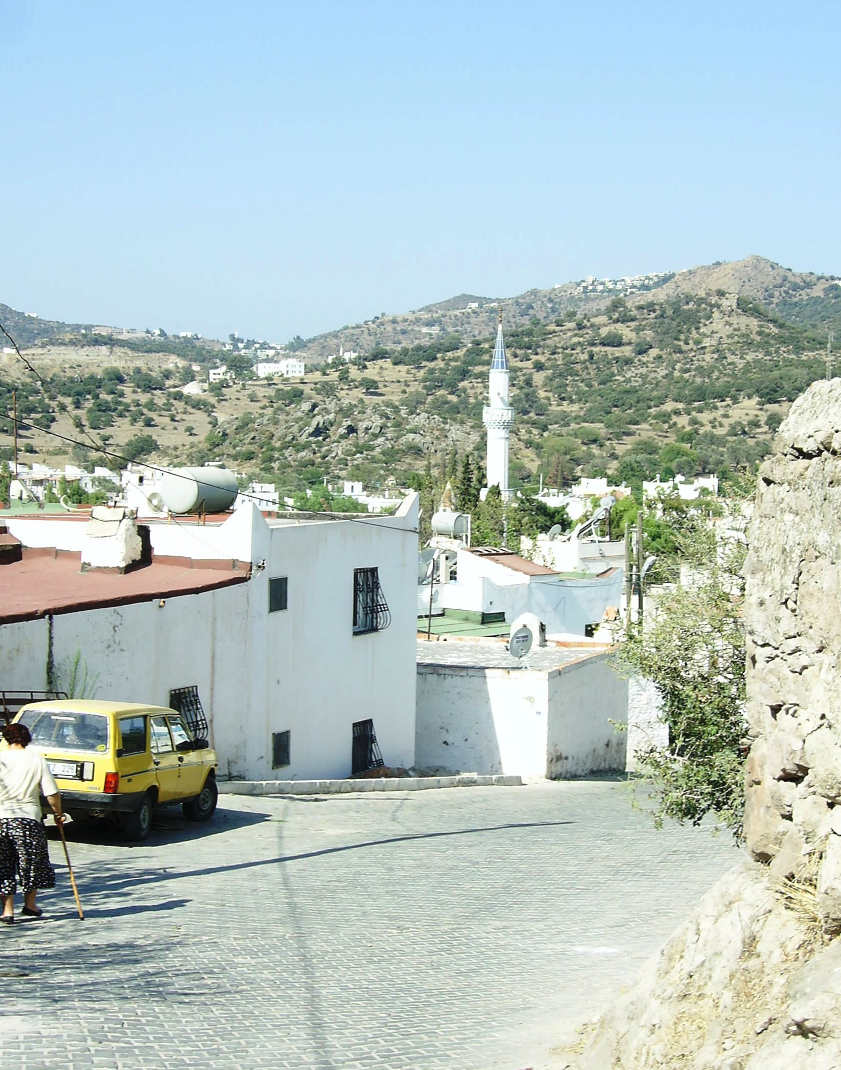 Street in Ortakent (near Bodrum); Turkey